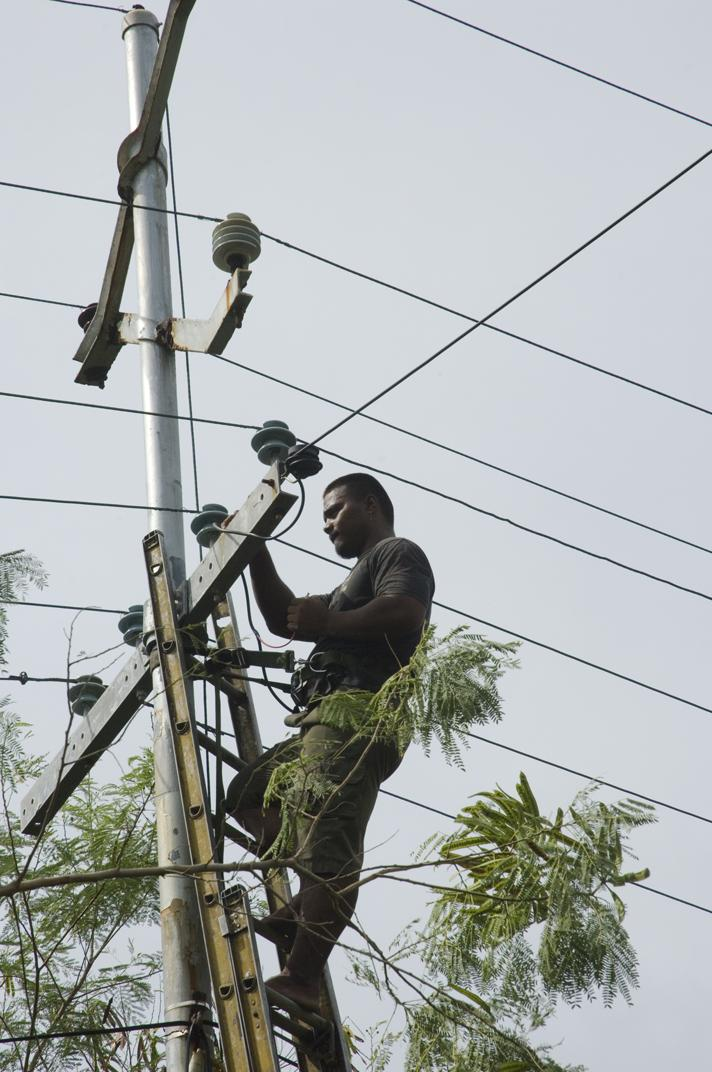 Power and Utility workers with the AusAID cherrypicker; Nauru